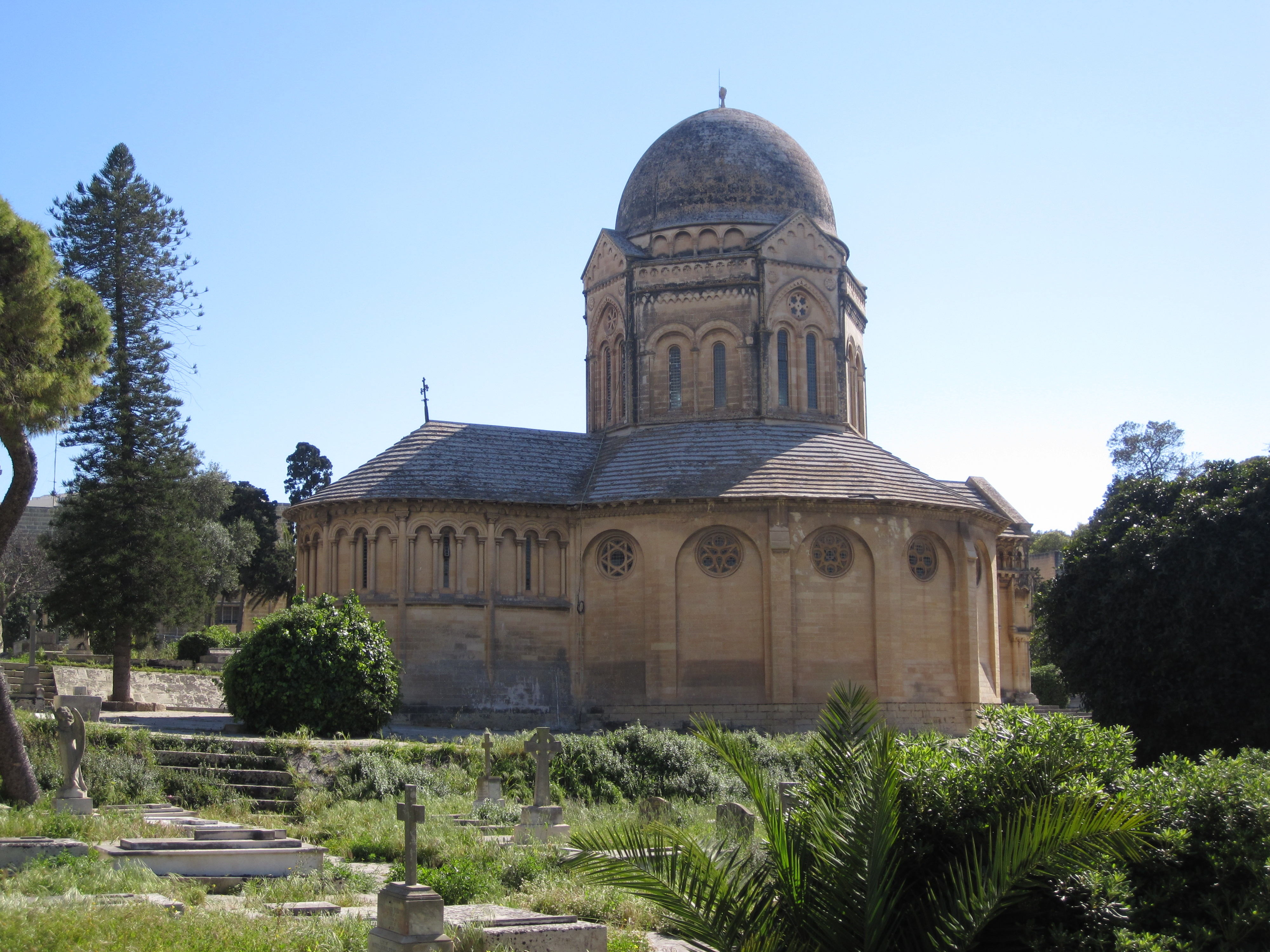 The chapel of Ta' Braxia Cemetery in Pieta, Malta.